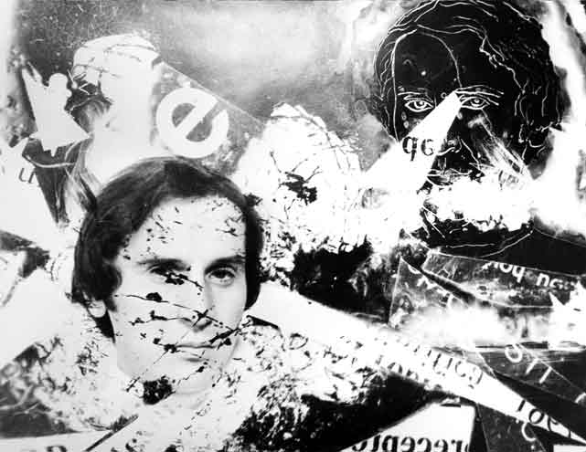 Portrait of the Artist